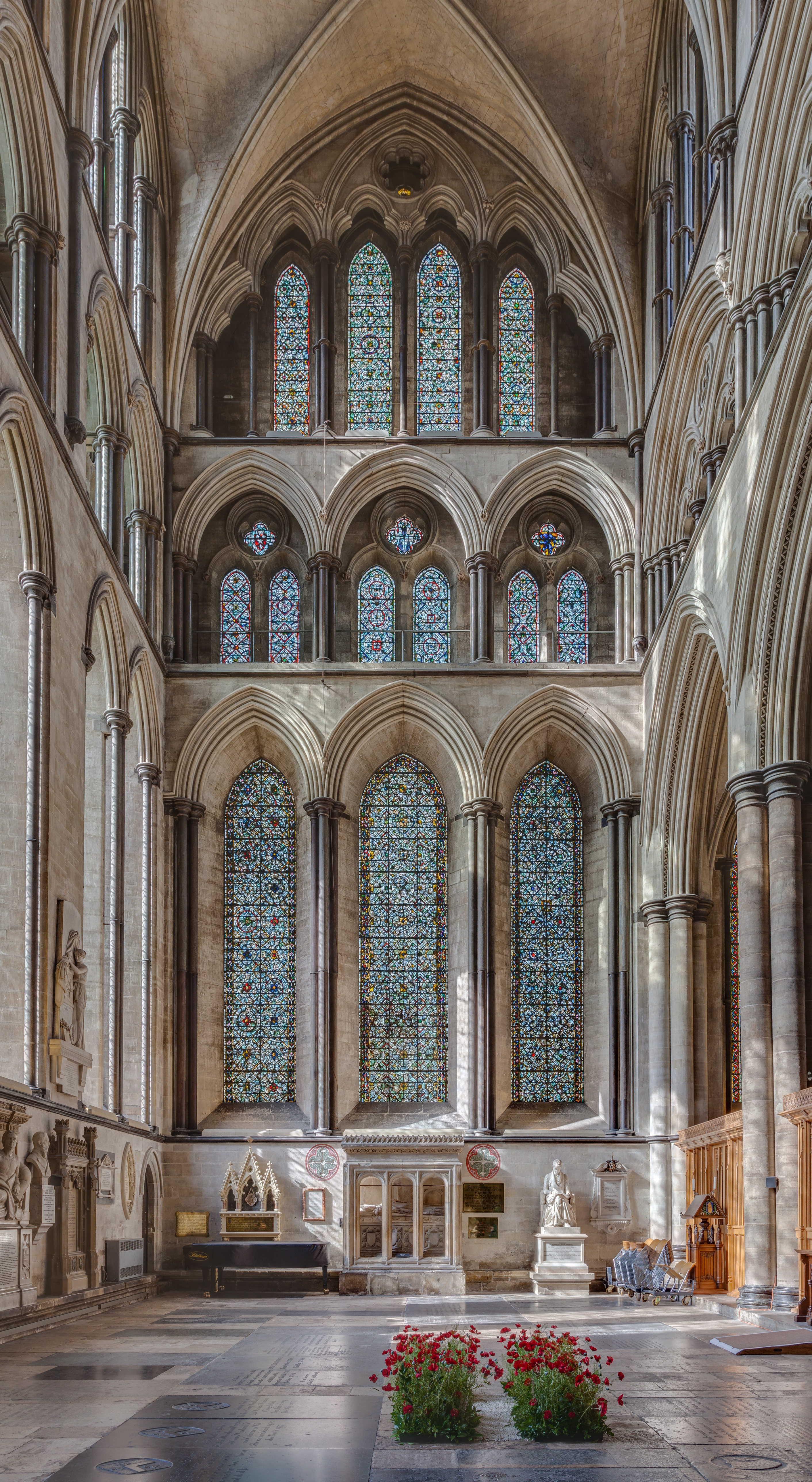 North transept (with the north wall in the middle) of the Salisbury Cathedral, located in the city of Salisbury, Wiltshire, England, is the largest in Britain. The temple, an Anglican cathedral, is one of the leading examples of Early English architecture. The canopy on the left is dedicated to John Michael Peniston (Salisbury architect), in the tomb in the middle lies Bishop John Blyth (Bishop of Salisbury between 1493-1499) and the statue on the right honours the historian Richard Colt Hoare. The cathedral was consecrated in 1258 and its spire is the tallest in the United Kingdom.